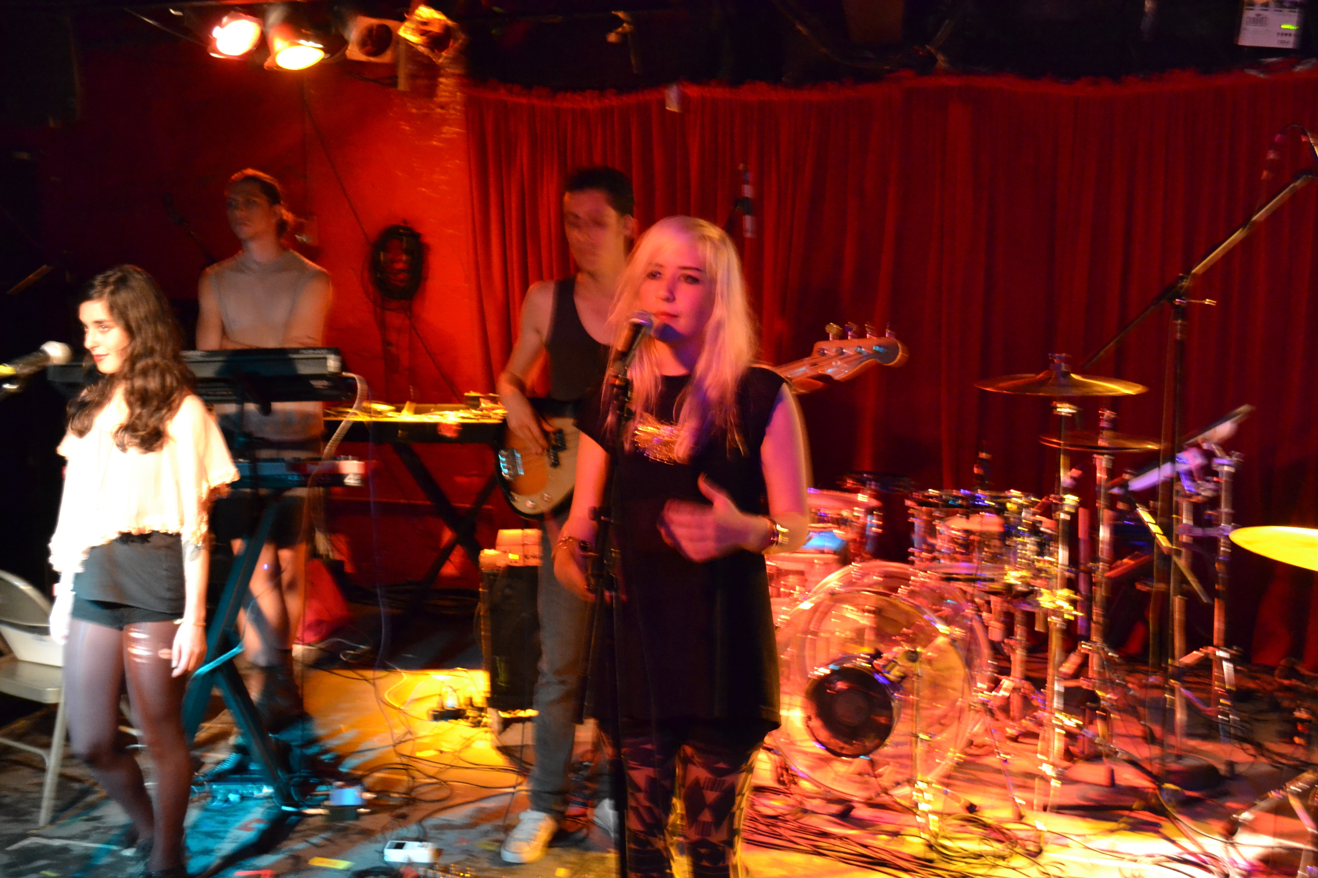 Austra opening for Cold Cave at the Grog Shop in Cleveland Heights, OH